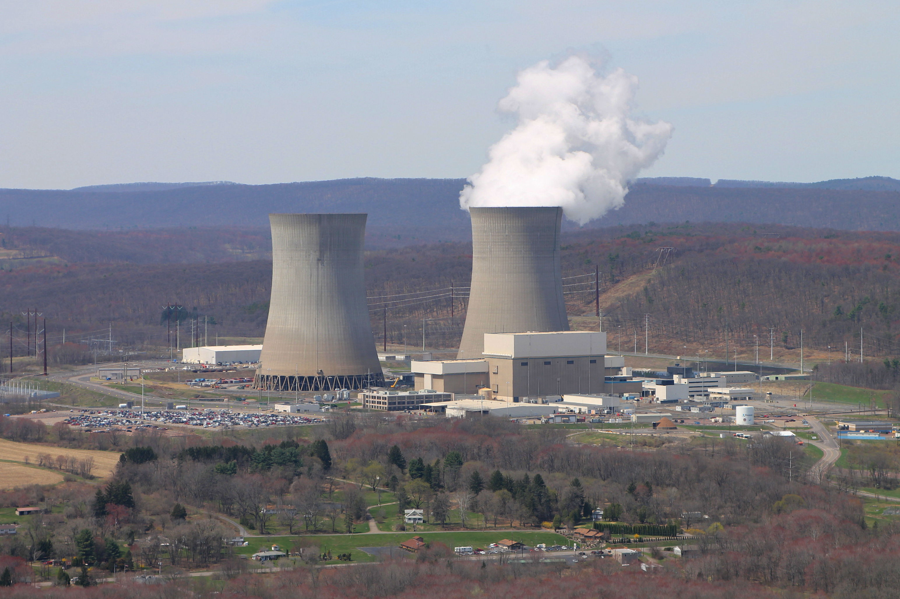 Susquehanna Steam Electric Station from Council Cup, a few miles to the southwest. US Route 11 can be seen in the foreground